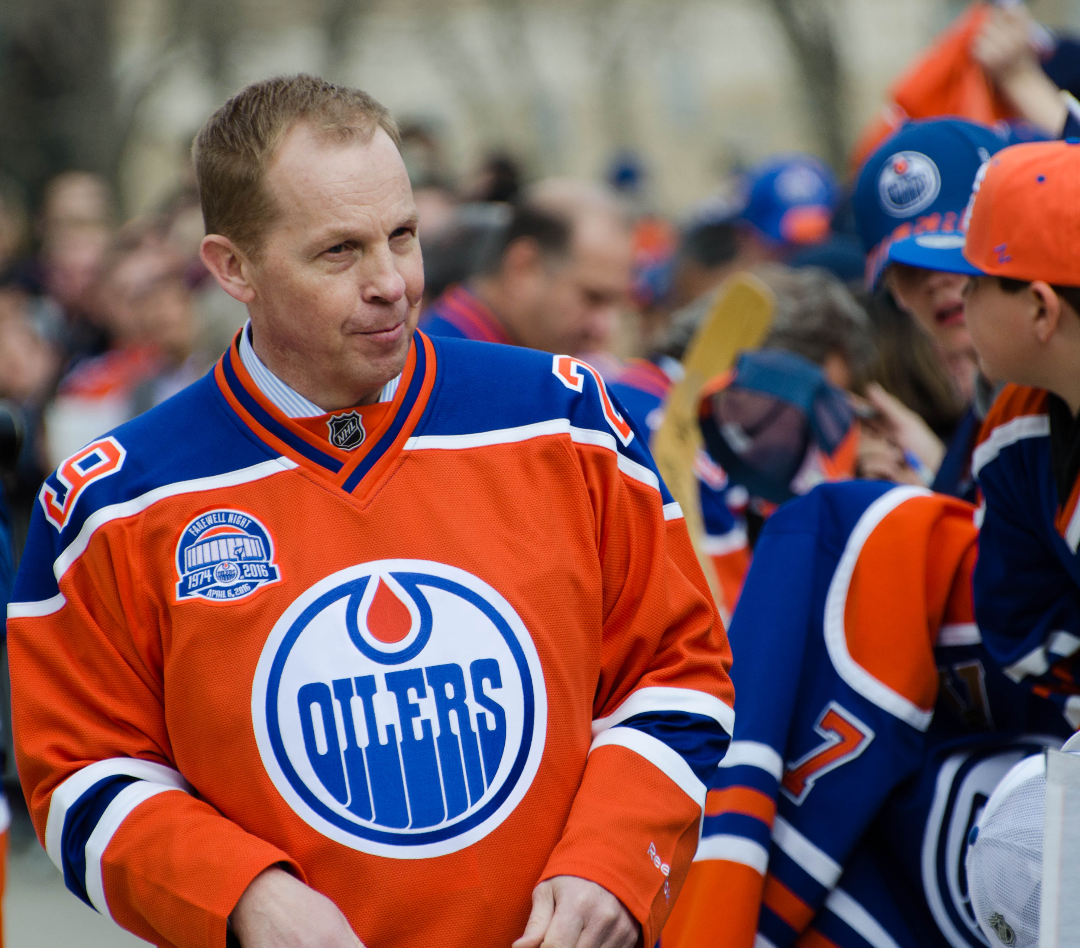 Reijo Ruotsalainen in 2016. Please credit Connor Mah for use elsewhere.